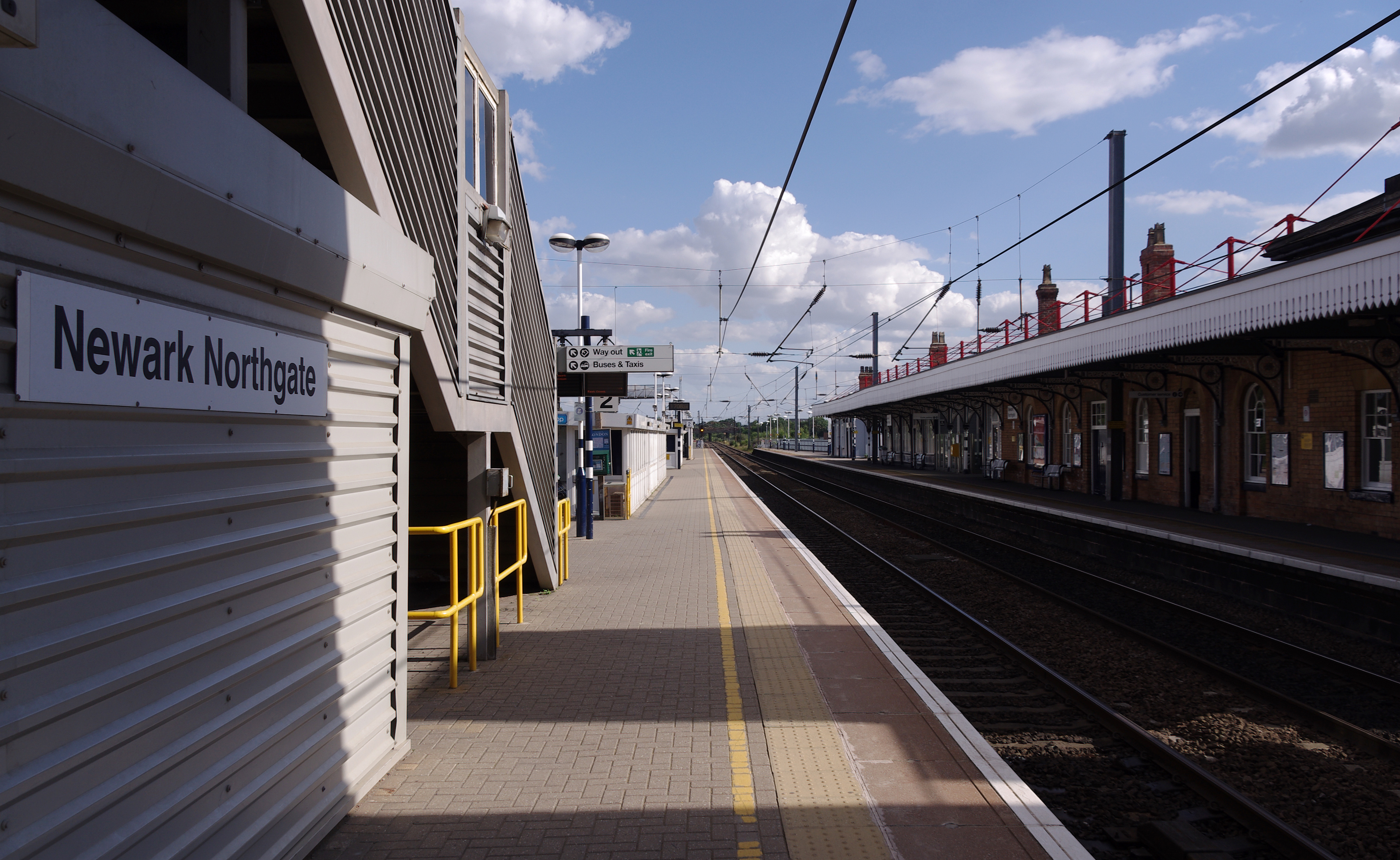 Looking south along the platforms at Newark North Gate railway station. The station is nicer in the sun than when I last visited it, but it's still pretty awful.